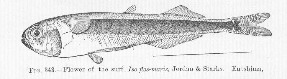 Flower of the surf. Iso flos-maris. Jordan & Starks. Enoshima Subject: Iso flos-maris, Flower of the surf Tag: Fish